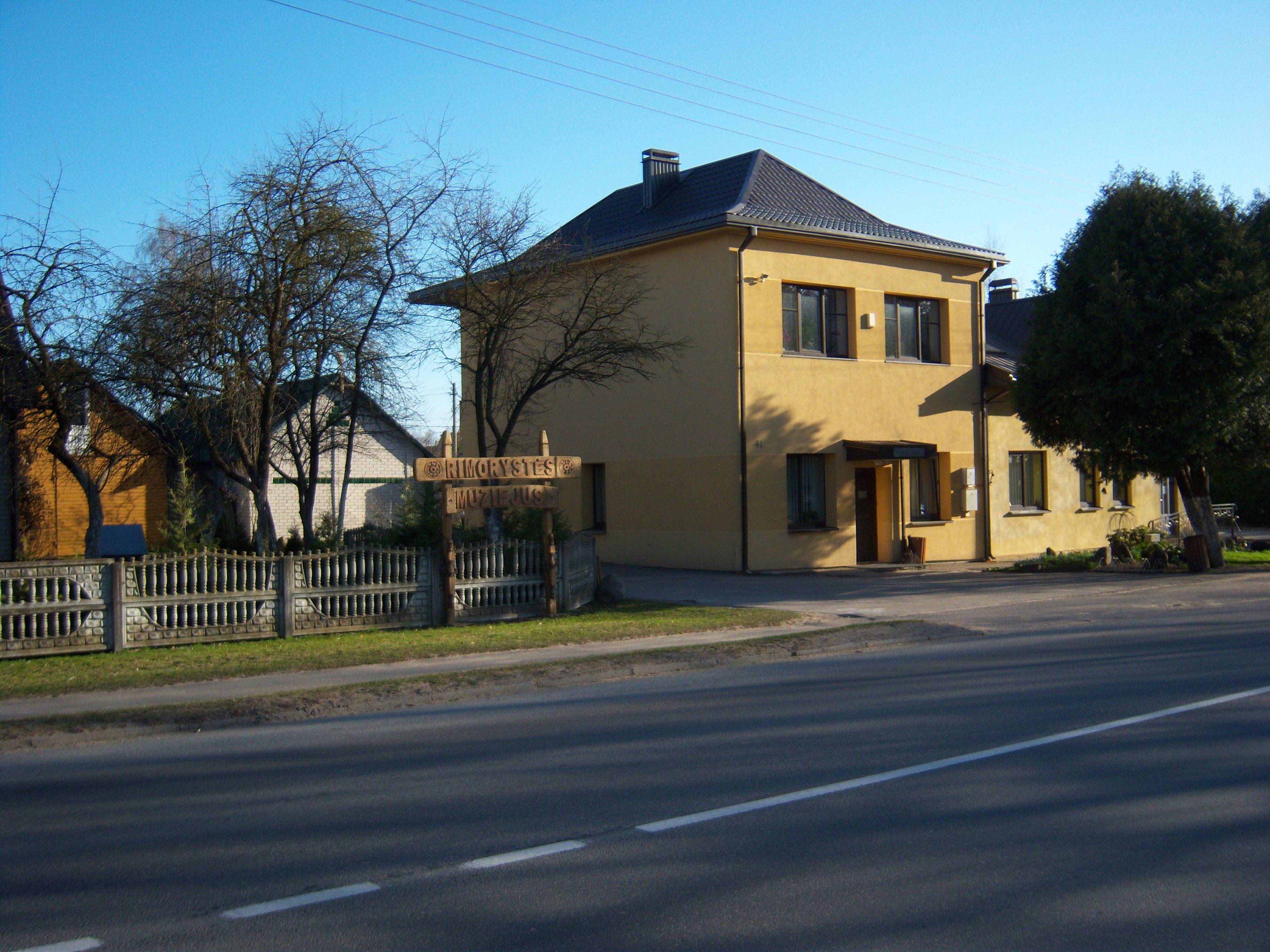 Horse harnesses museum, Veiveriai, Lithuania